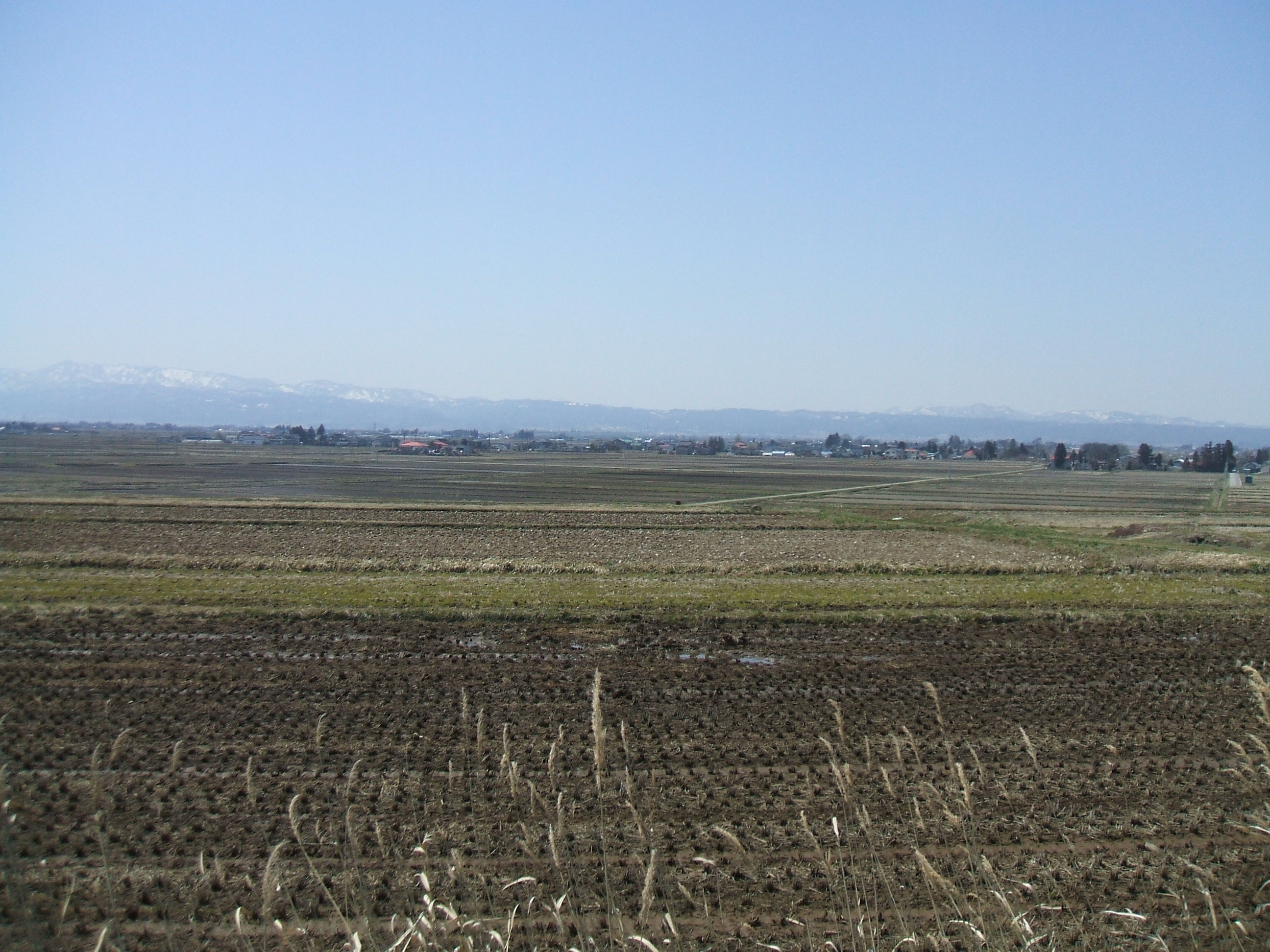 This is a landscape of Kumanodo, Kawahigashi, Aizuwakamatsu, Fukushima, Japan.